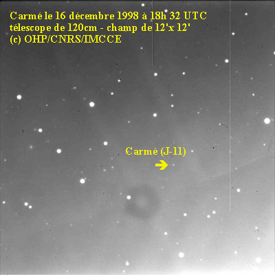 Carme (Jupiter XI) photographed by the OHP (Observatoire de Haute-Provence) on 16 December 1998 at 18h32 UTC. Jupiter's glare comes from the lower right.